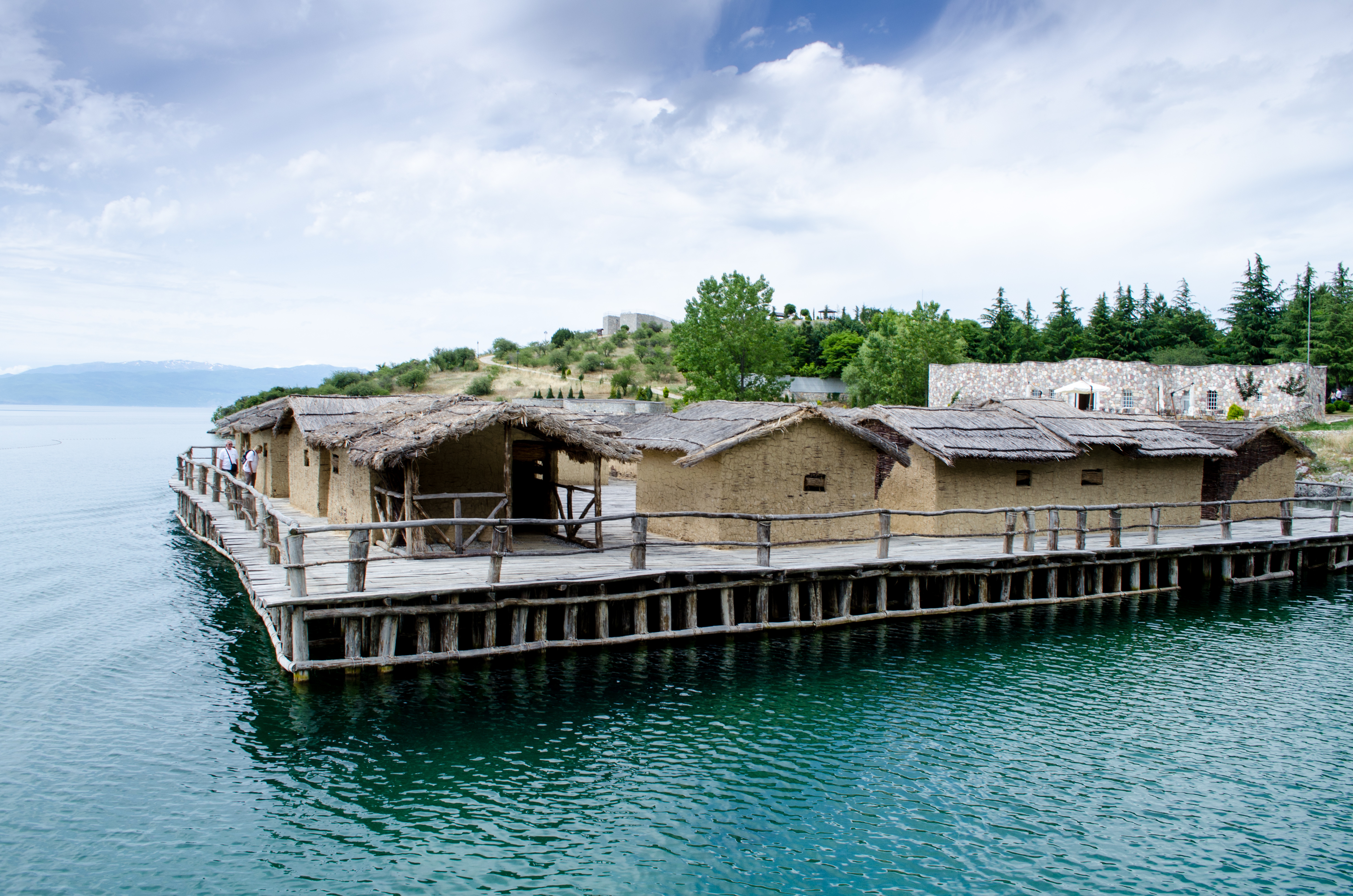 Museum on water, Ohrid Lake, Macedonia